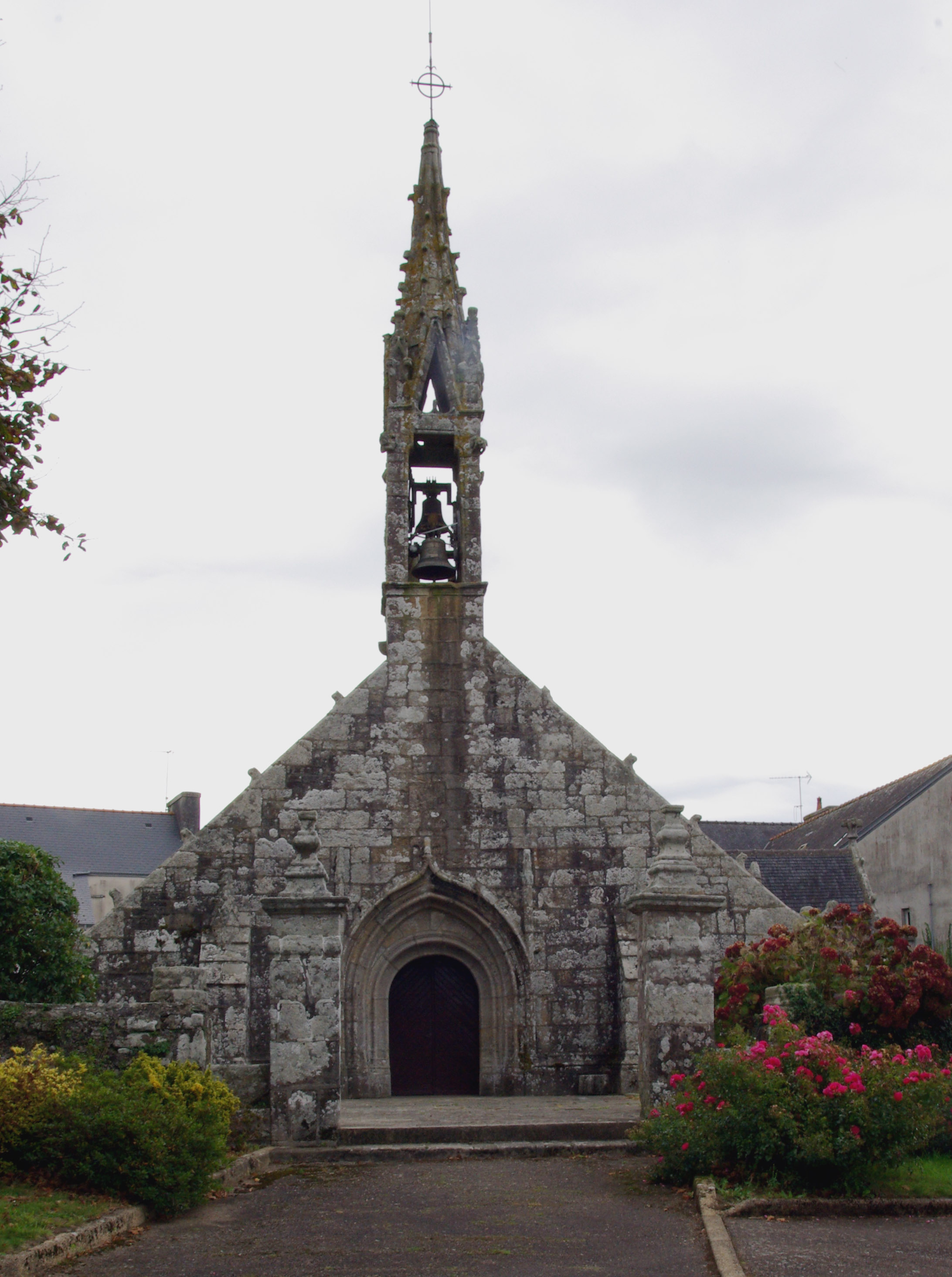 Church Gourlizon